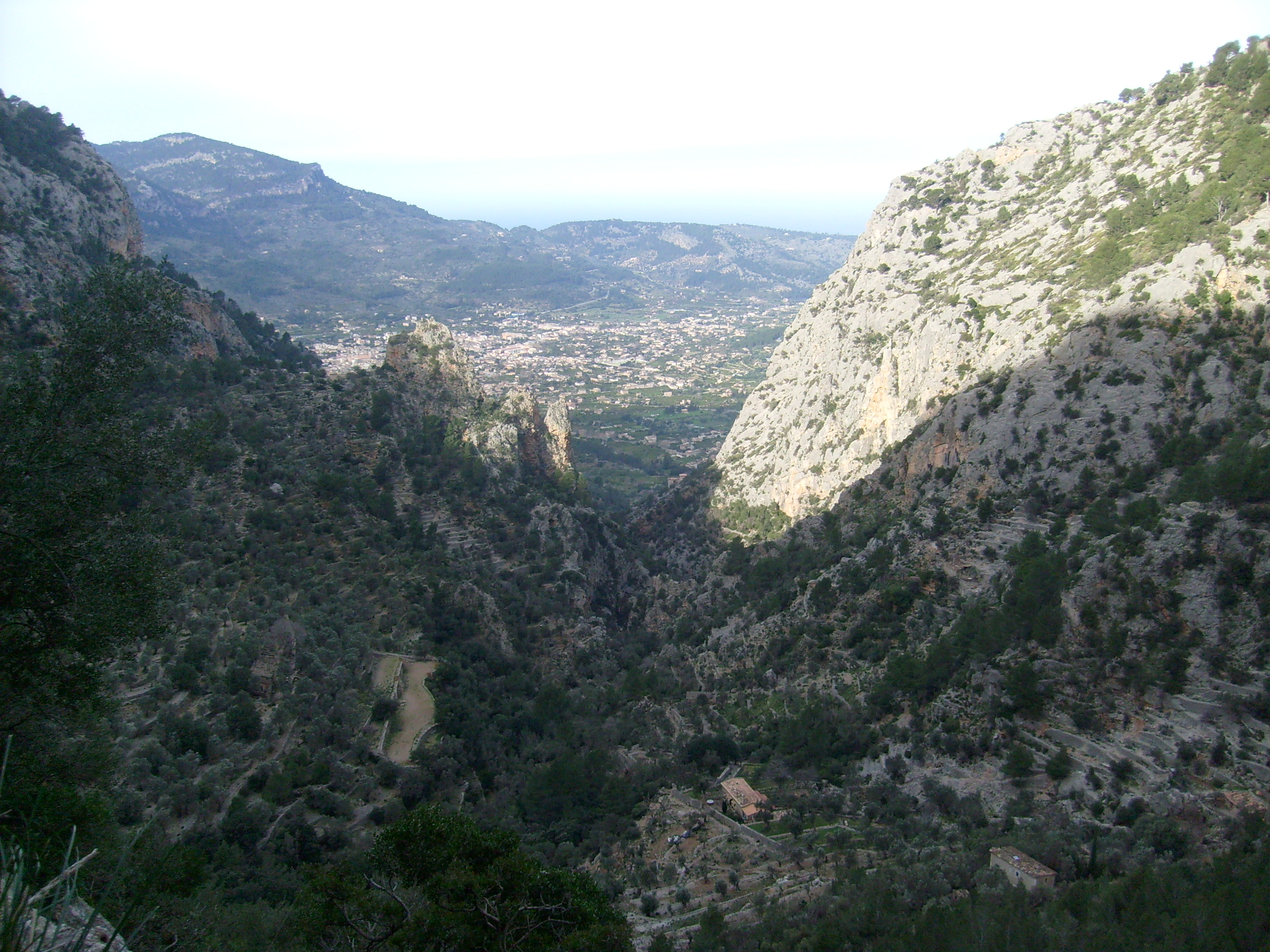 Sóller from above (at Coll de l’Ofre, top of El Barranc de Biniaraix)